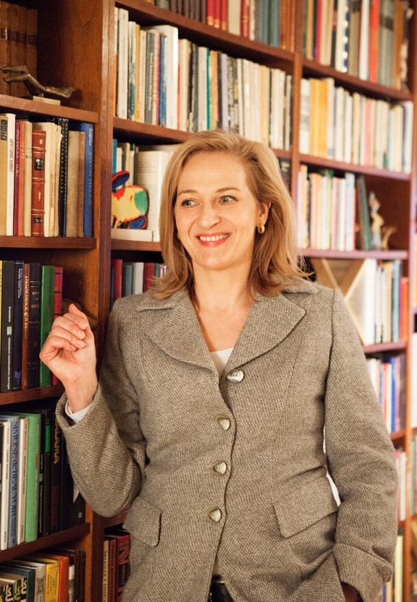 Anna Heinämaa, a Finnish writer, in 2015.